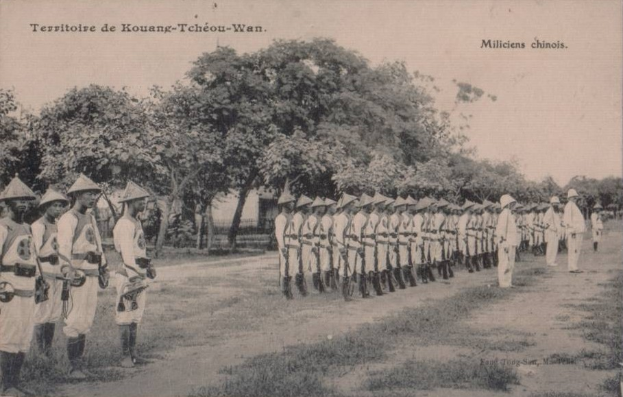 Chinese militia and French officiers in the French leased territory of Kwangchowan. Postcard from the 1920s or 1930s.